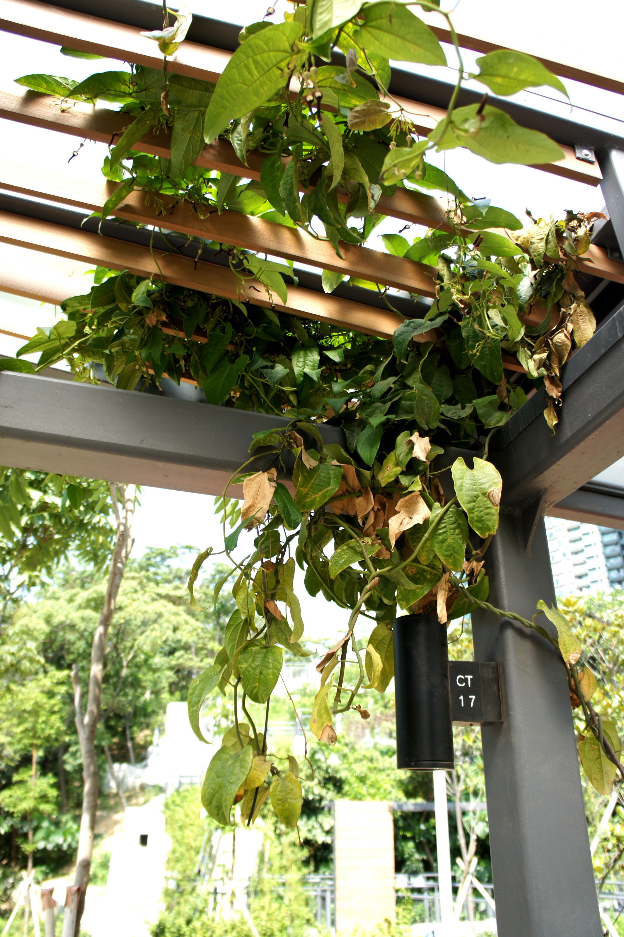 Aristolochia tagala (India Birthwort) (June 2011).